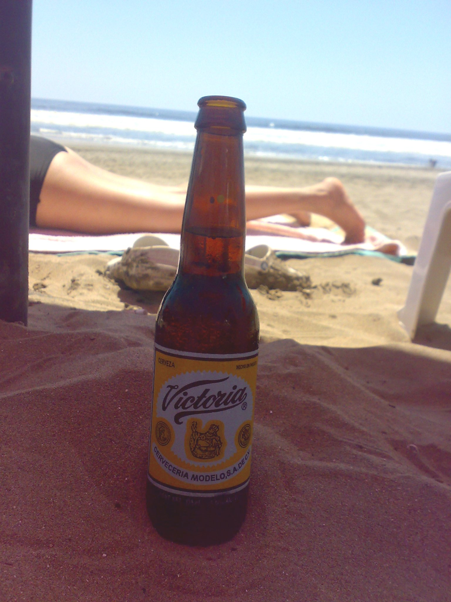 Victoria beer. Picture taken by me.